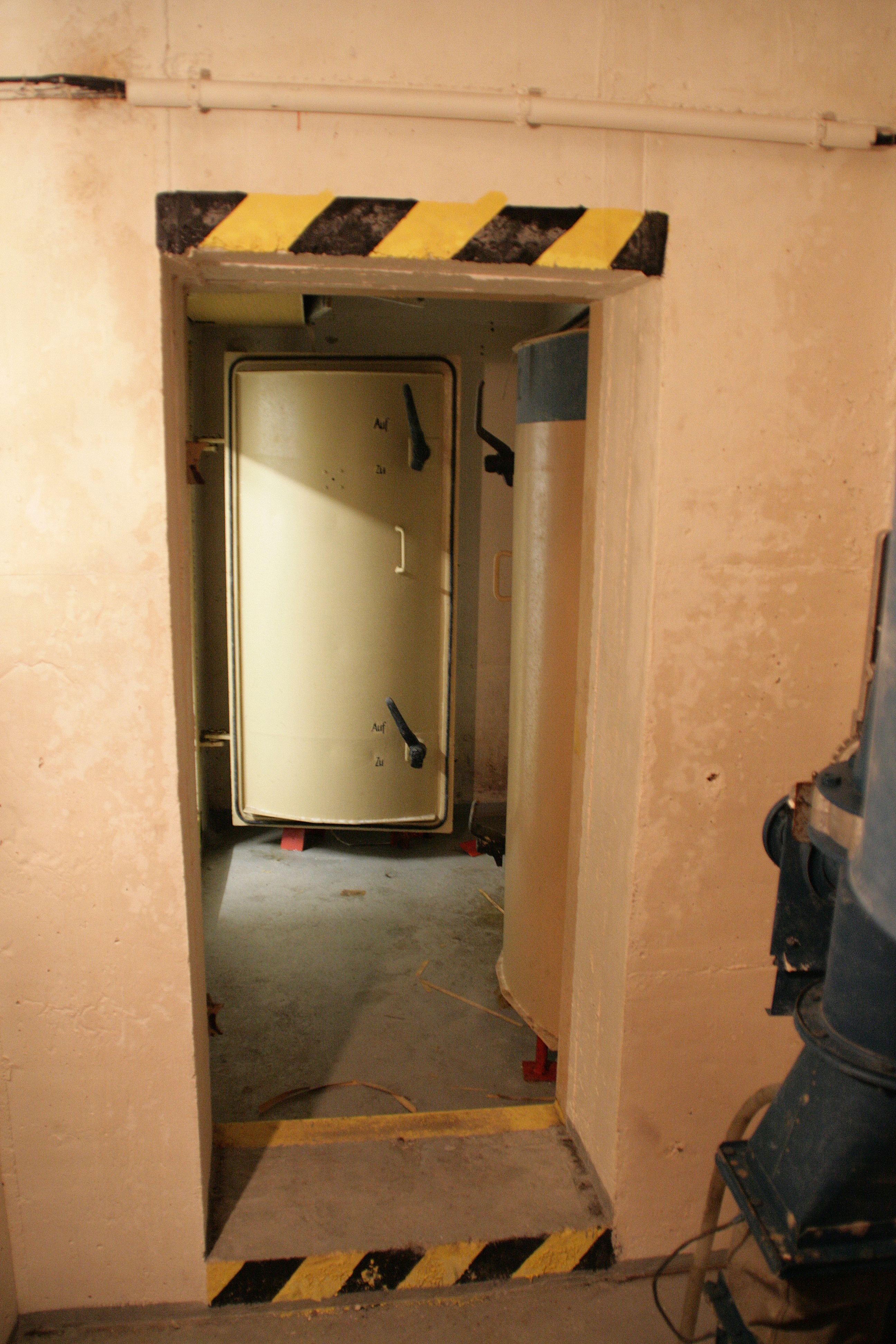 Bunker of Ministry of the Interior of GDR, Freudenberg, TO 02, door sluice